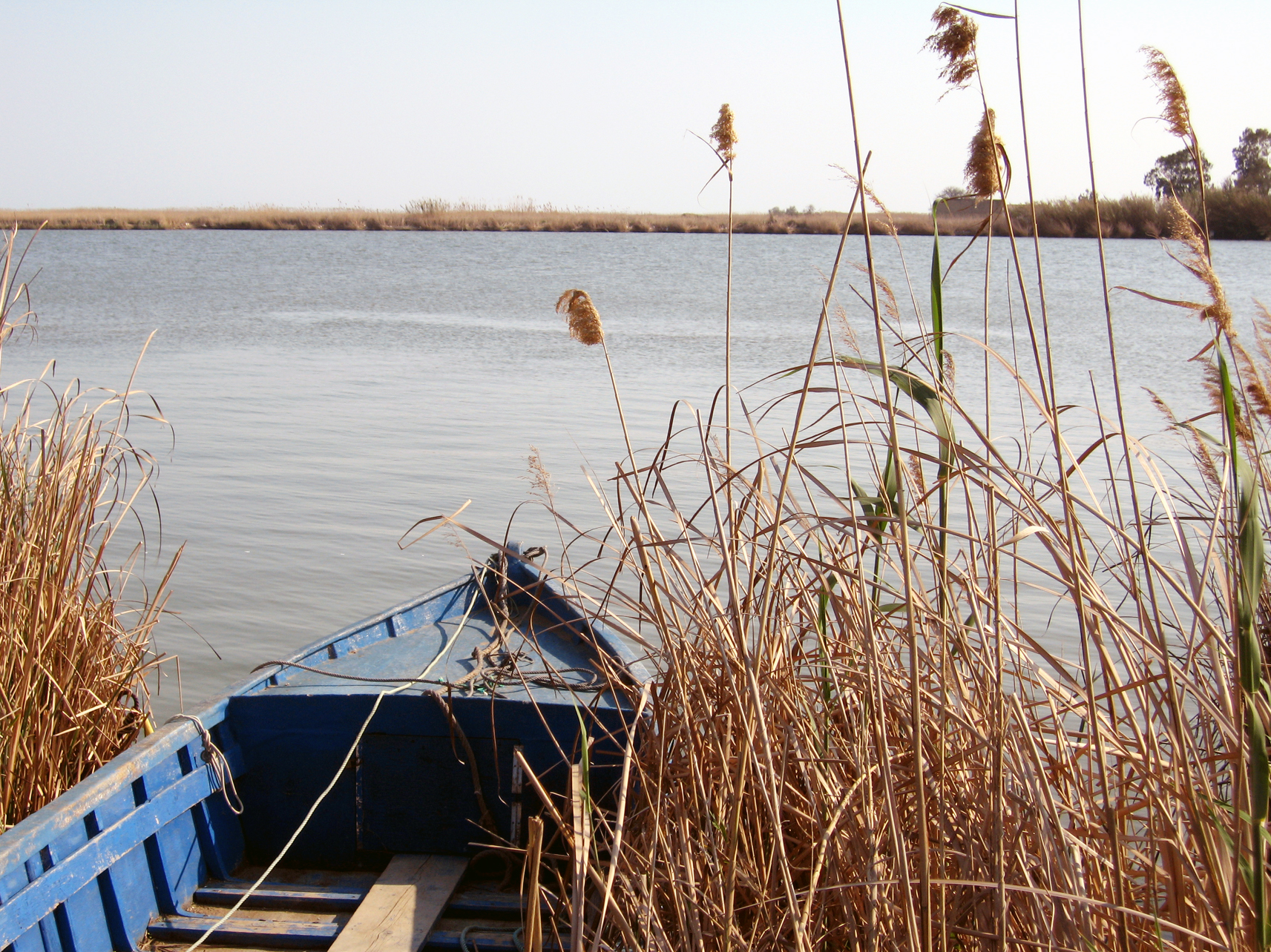 The Delta of the Ebro near Riumar, Catalonia (Spain).